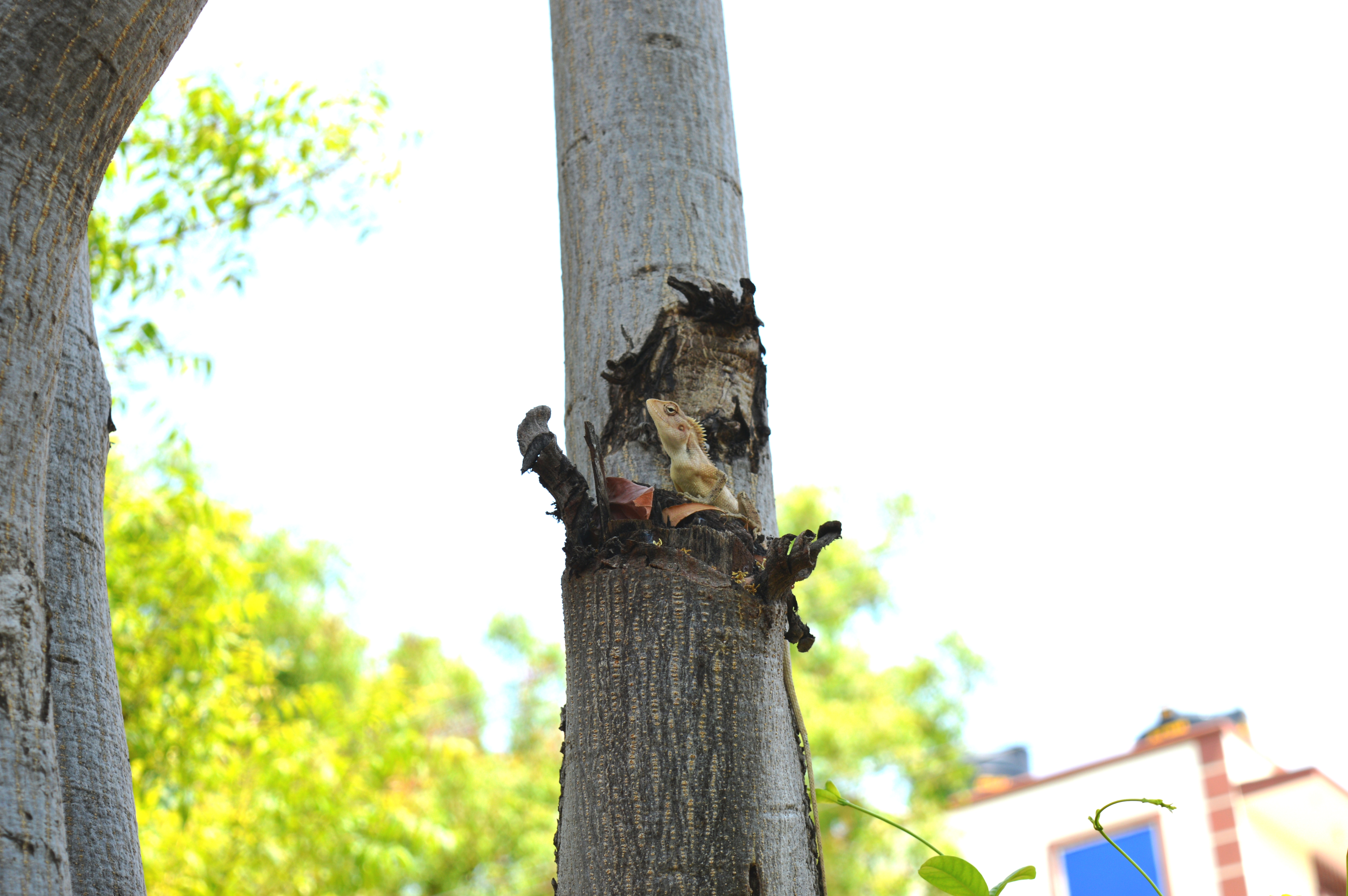 Chameleon on tree